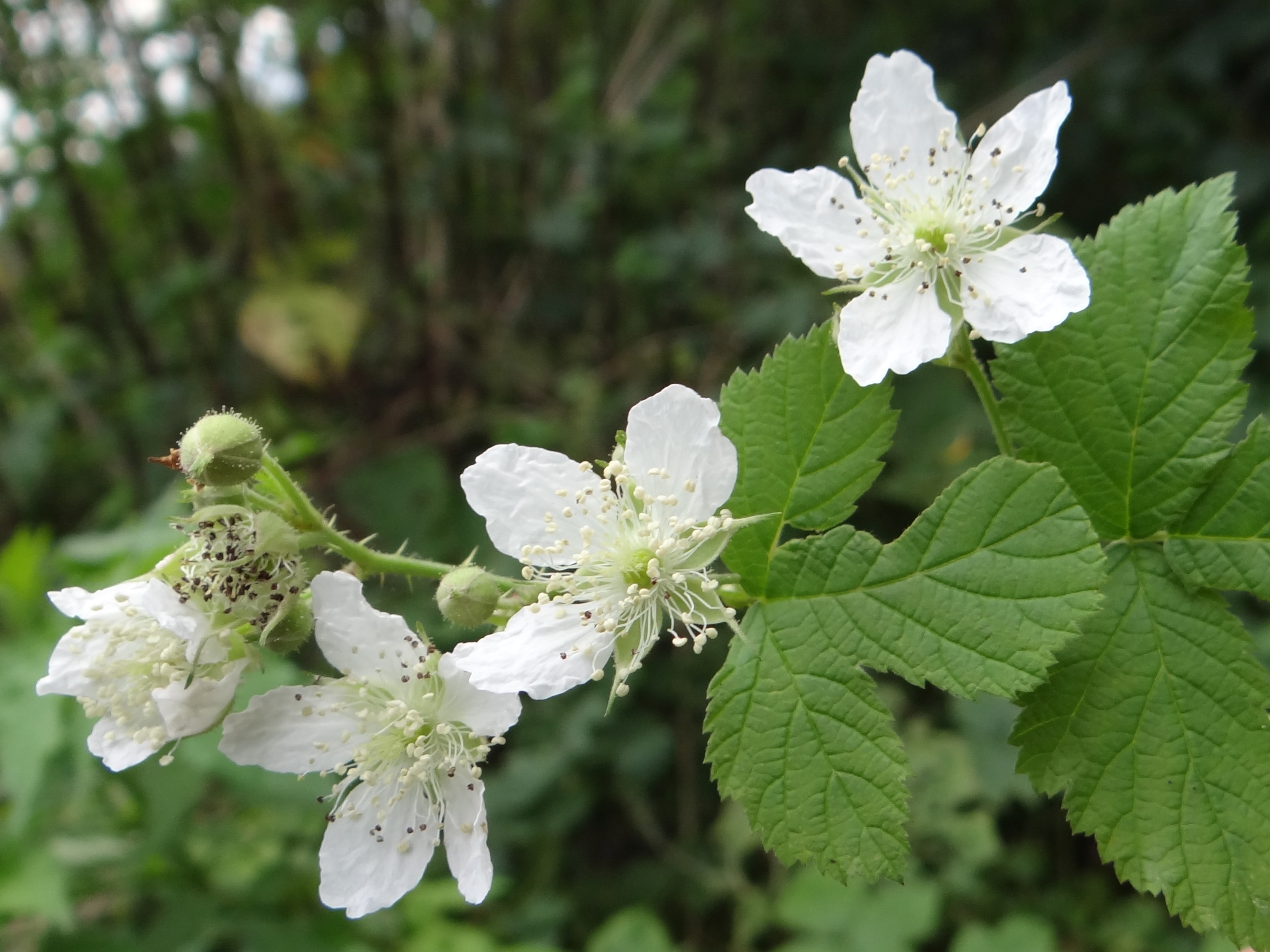 Rubus caesius (location: Poland, Łapanów)